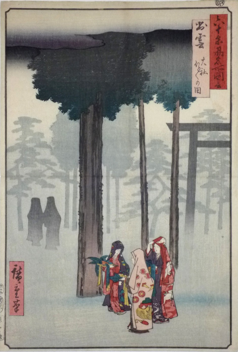 Izumo Taisha of the Famous Scenes of the Sixty States.